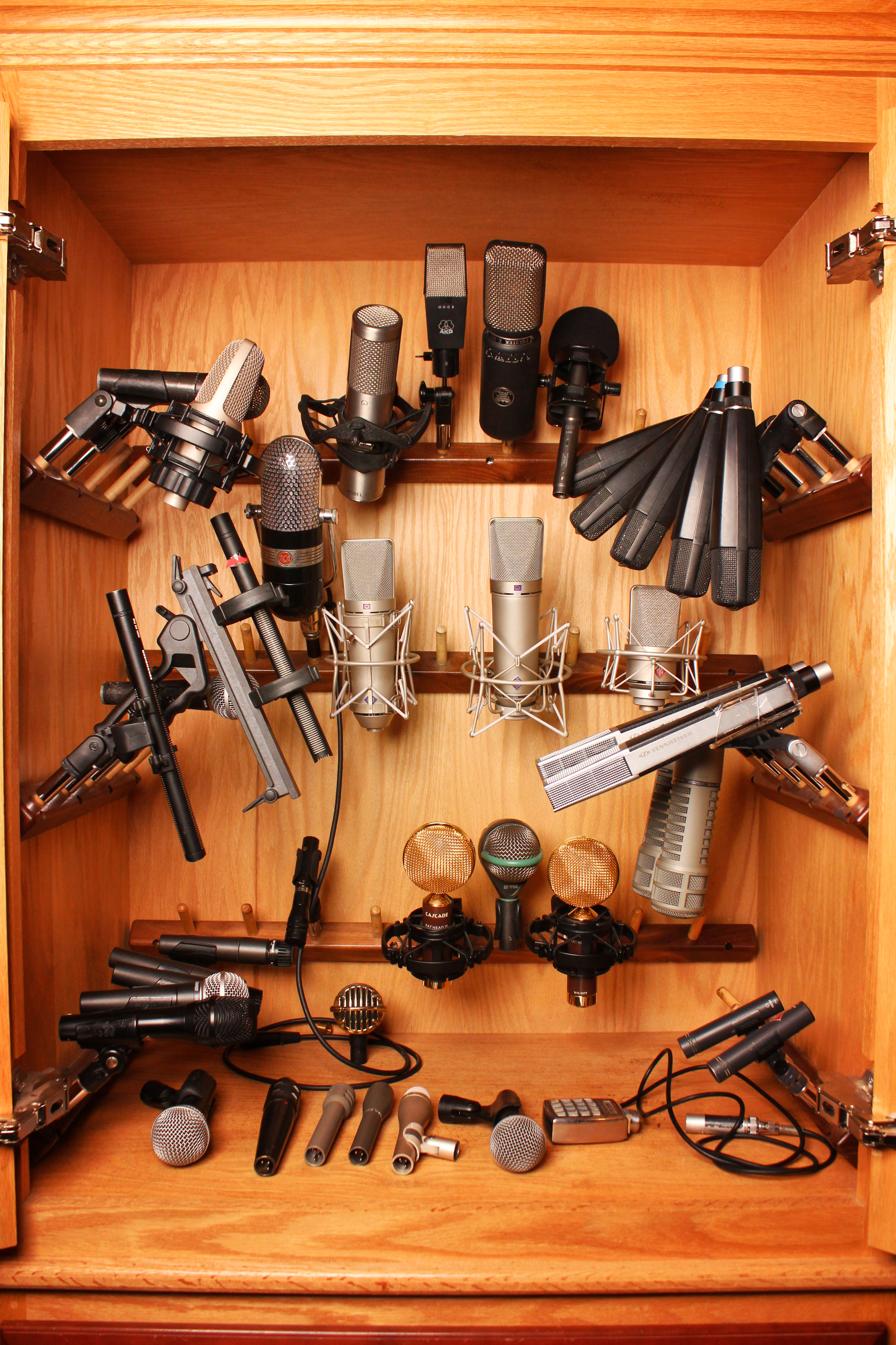 In Your Ear Studios | Richmond, VA Equipment List: Microphones - AKG 414-Buls, AKG C3000B, AKG D112, Audio Technica AT825 Stereo, Cascade Fathead II, Cad E300, Crown CM700, Electrovoice RE20, Neumann KM105, Neumann KM184, Neumann U87, Neumann TLM103, RCA 77D, Sennheiser 421, Sennheiser 441, Sennheiser MKH416, Shure SM57, Shure SM58, Shure SM63, Sony ECM44B ..., Sanken COS-11D ...